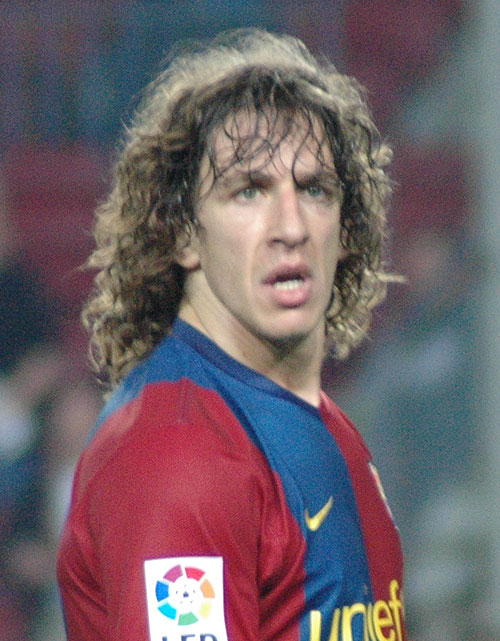 Carles Puyol, FC Barcelona's player, during the match FC Barcelona-Getafe CF.